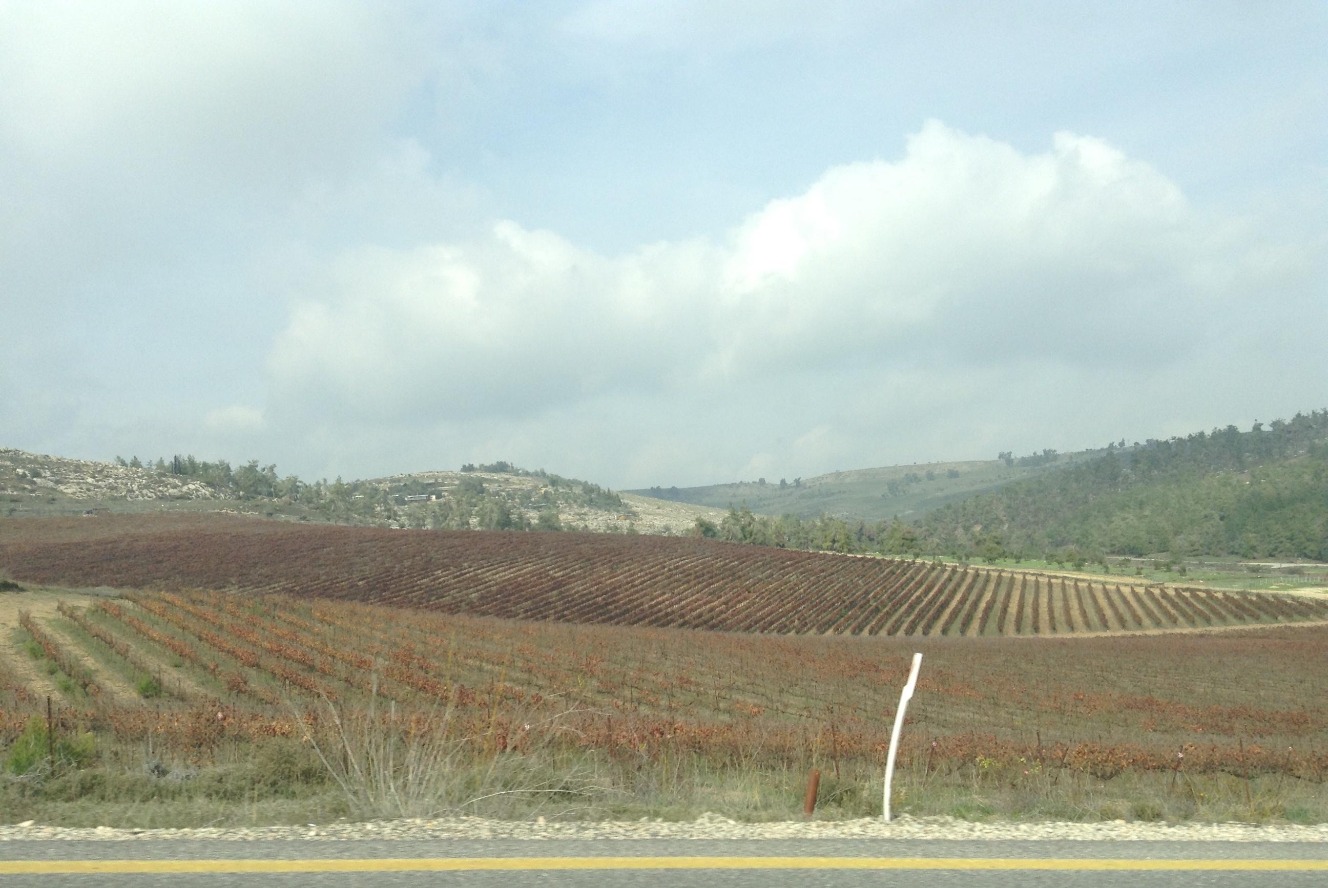 Agriculture in Israel (Safed)